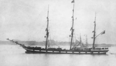 Creator unknown. Black and white photo taken prior to her sinking in 1903. Free of copyright restriction due to age of photo.